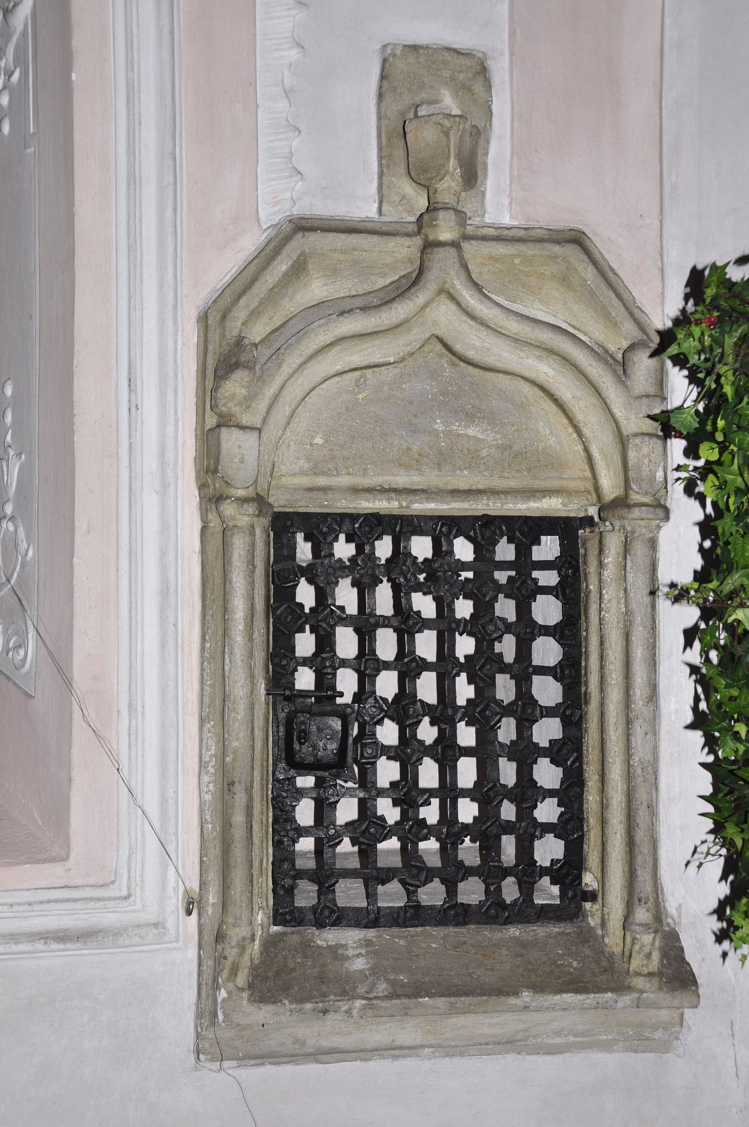 Sacraments tabernacle in the northern choir wall of the parish church Holy Stephanus, municipality Grafenstein, district Klagenfurt Land, Carinthia, Austria